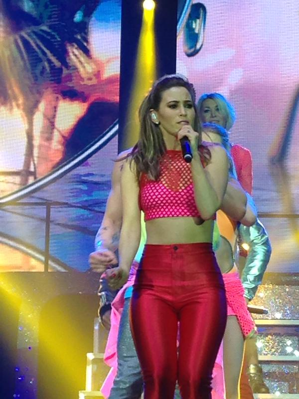 Bring It All Back 2015